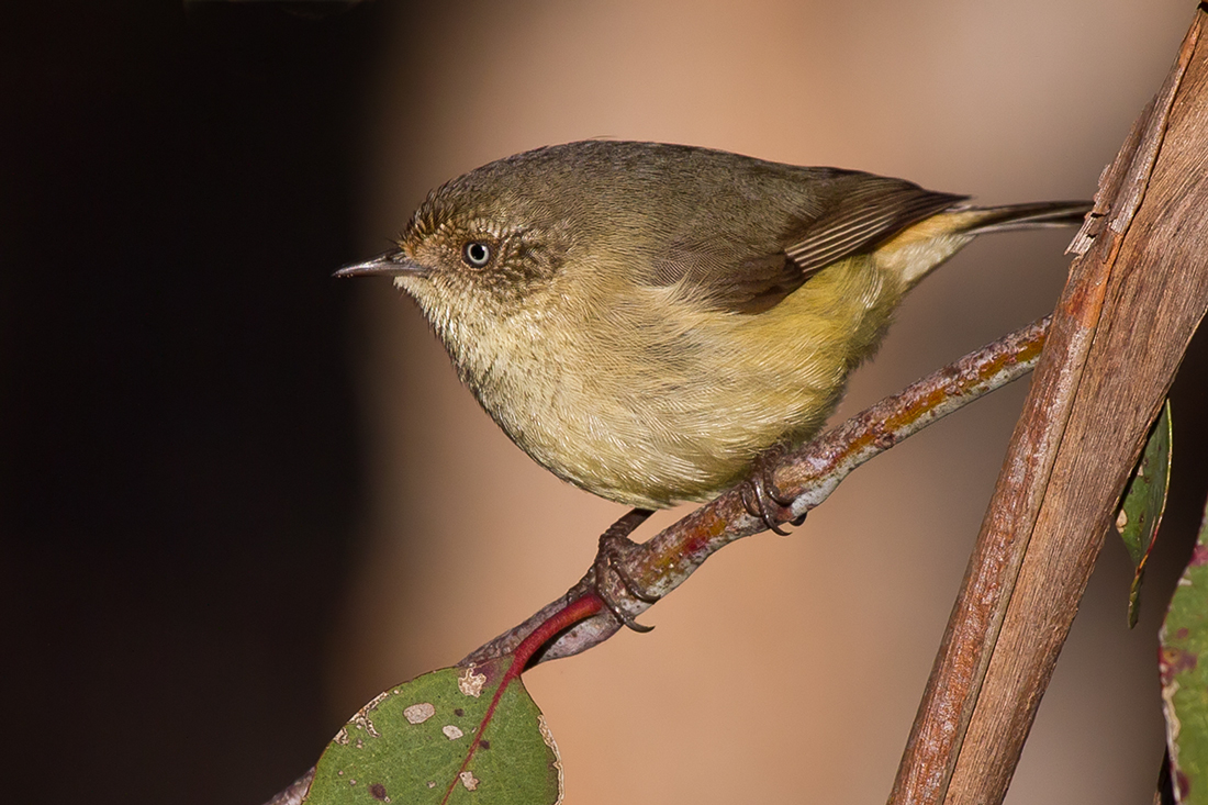 A Buff-rumped Thornbill in Victoria, Australia.